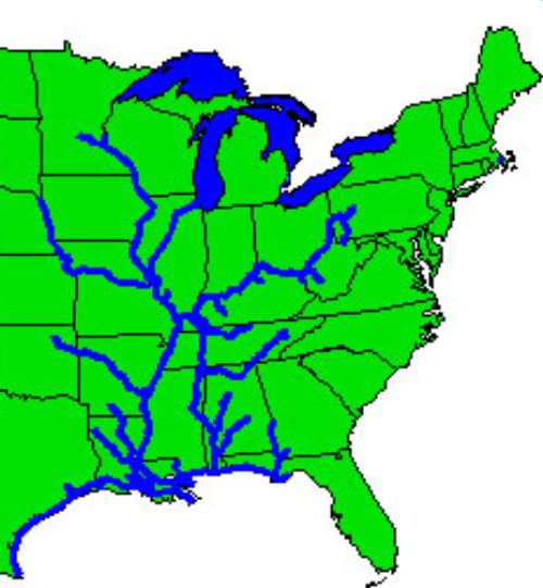 Clip of graphic taken from Corps of Engineers website, showing the US inland navigational system. Trimmed, enlarged, and smoothed to remove artifacts with the GIMP.